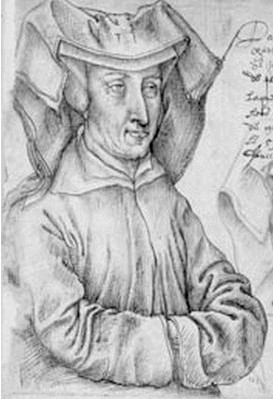 Michelle of Valois